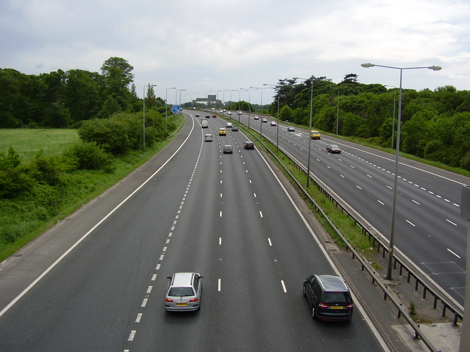 M6 motorway just South of junction 29, Preston, Lancashire - looking south